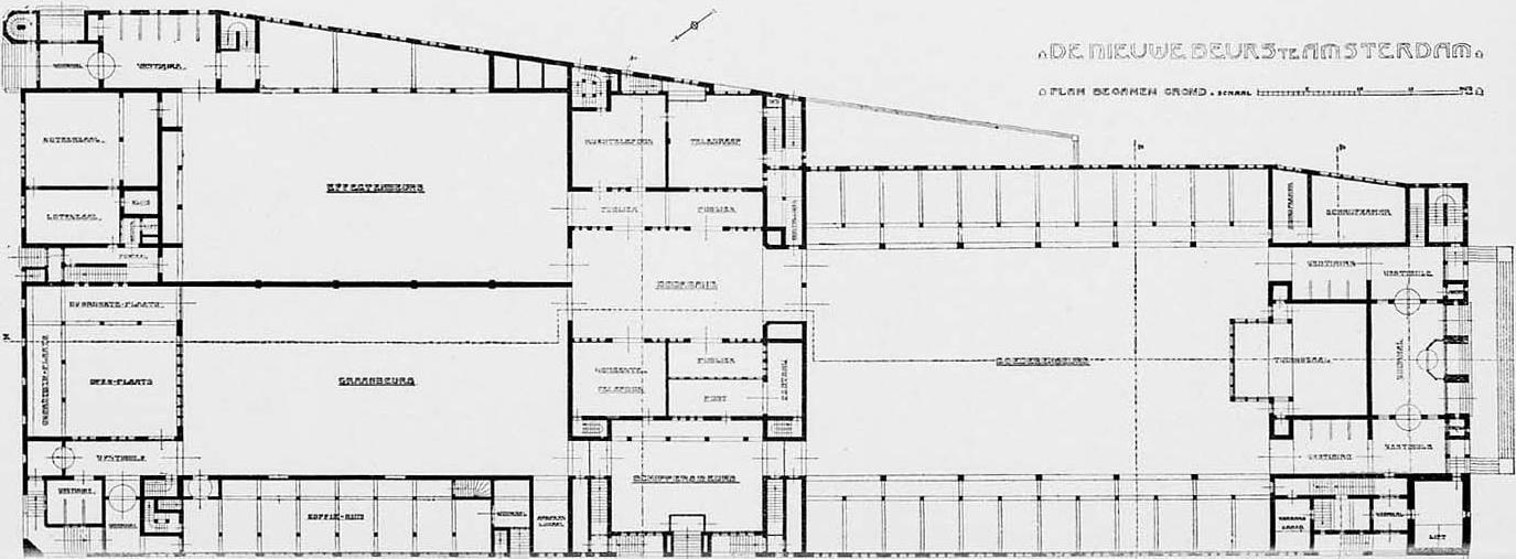 H.P. Berlage. Commodity Exchange, Amsterdam, plan.